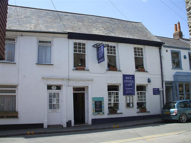 Rick Stein's Cafe, Padstow Walton house is one of several properties belonging to him.